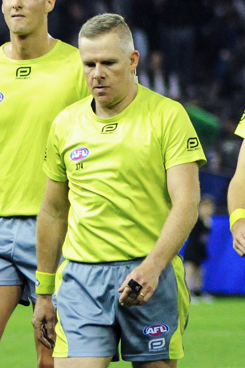 Justin Schmitt during the AFL round six match between North Melbourne and Port Adelaide on Saturday, 28 April 2018 at Etihad Stadium in Melbourne, Victoria.